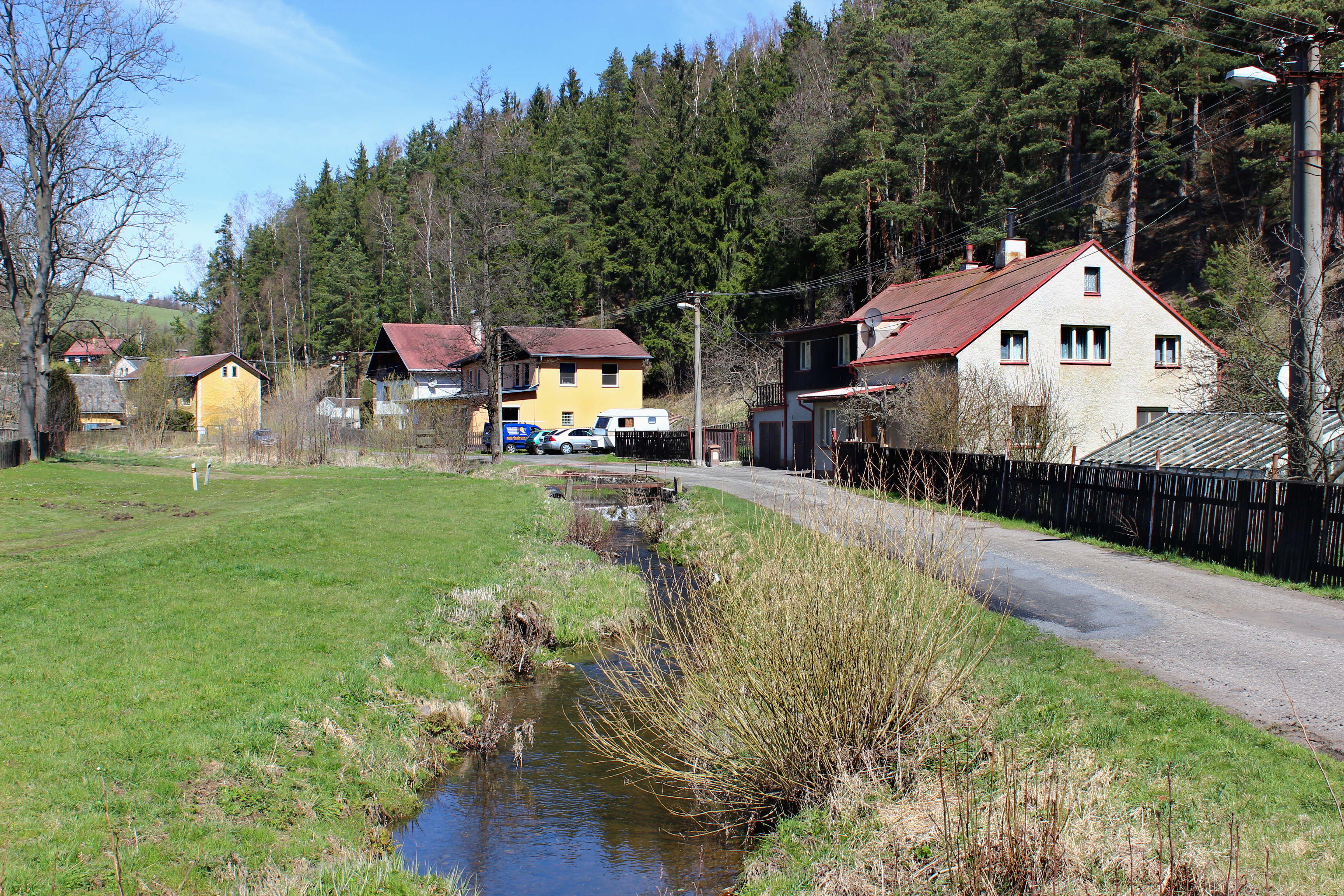 Horní Tašovice, part of Stružná village, Czech Republic